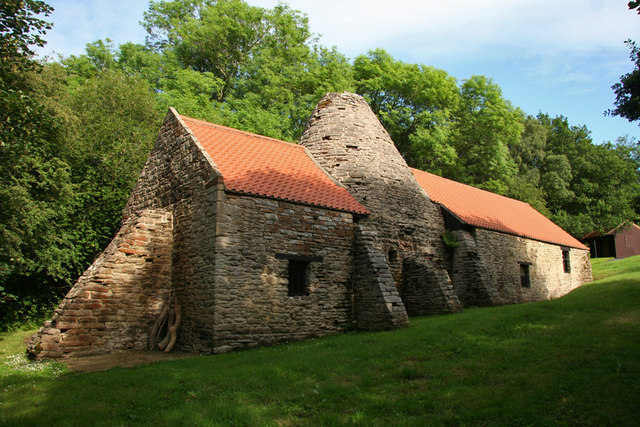 Derwentcote Cementation Furnace An early steel furnace now in the care of the National Trust.